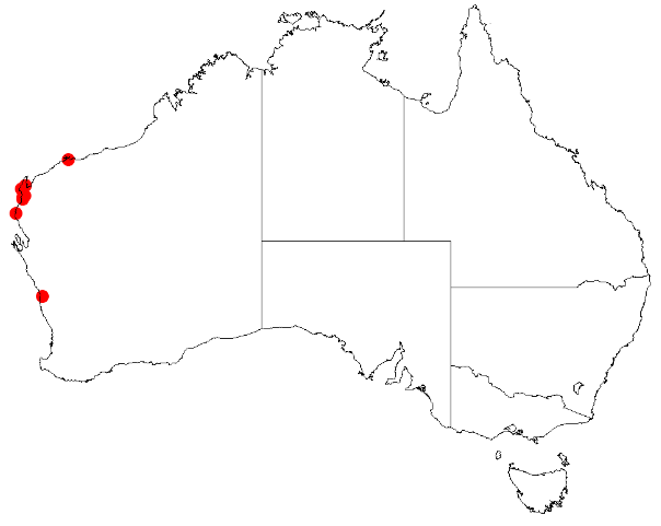 Scaevola spicigera occurrence data downloaded from Australasian Virtual Herbarium on 12 May 2019